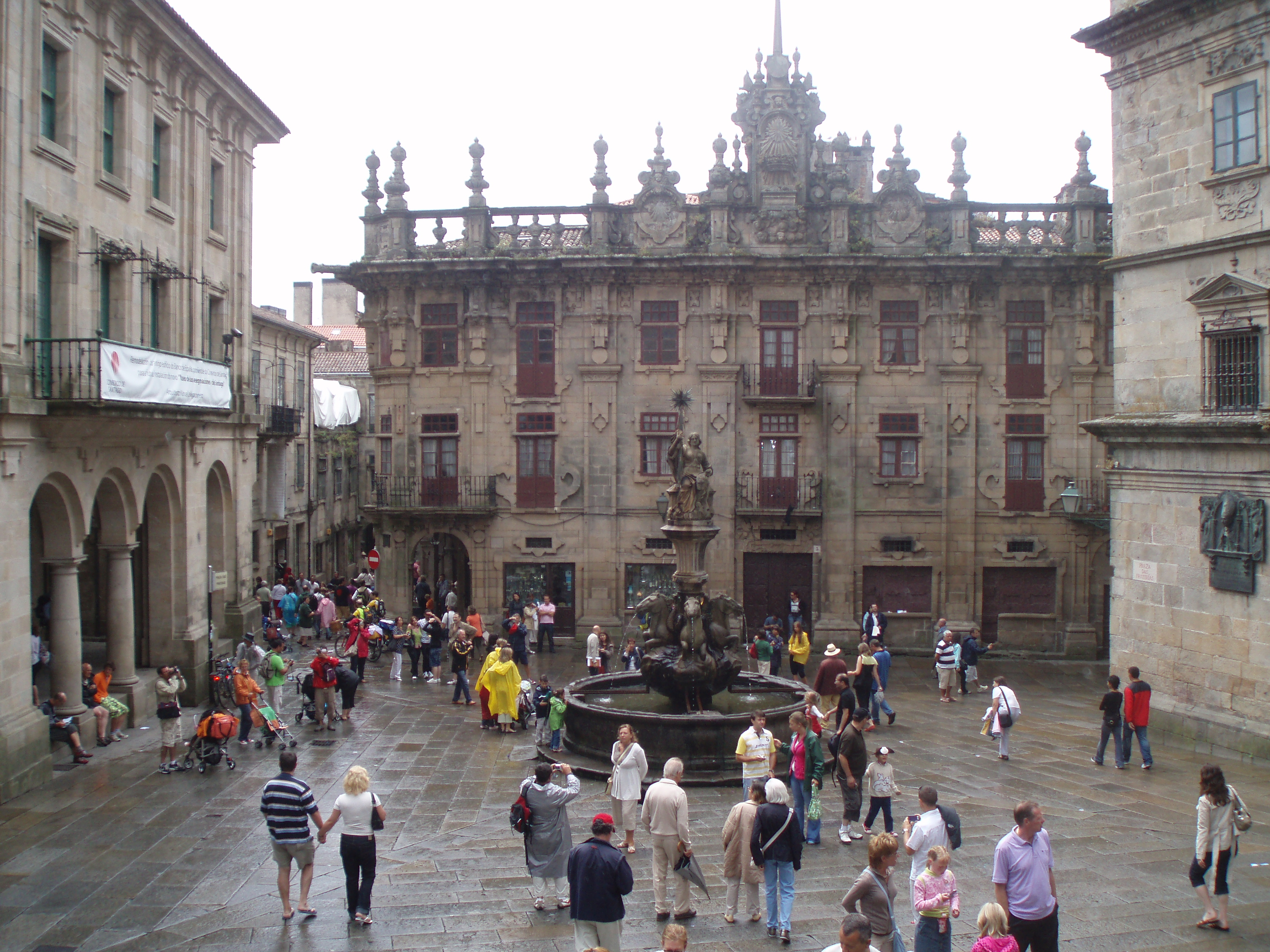 Platerías square, in Santiago de Compostela. (Spain).